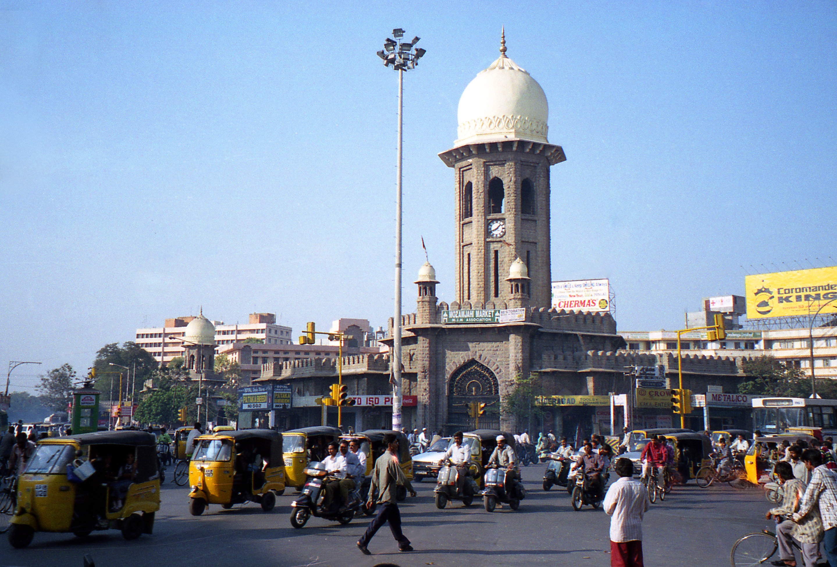 Mauzam Jahi Market street scene in Hyderabad, India. Street occupied by auto-rickshaws and pedestrians.